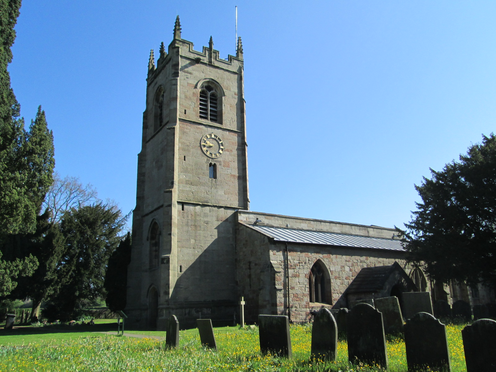 St John the Baptist's Church in Mayfield, Staffordshire, seen from the south-west.